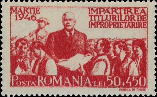 1946 Romanian stamp - Issue-of-the-new-property-documents-by-Petru-Groza